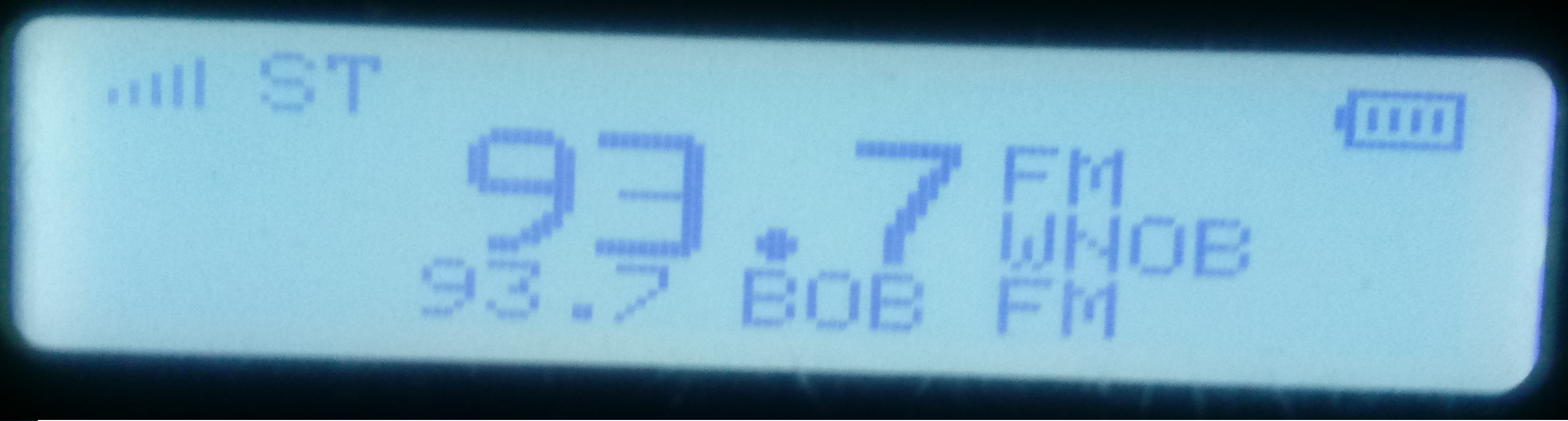 WNOB RDS radio station ID displays